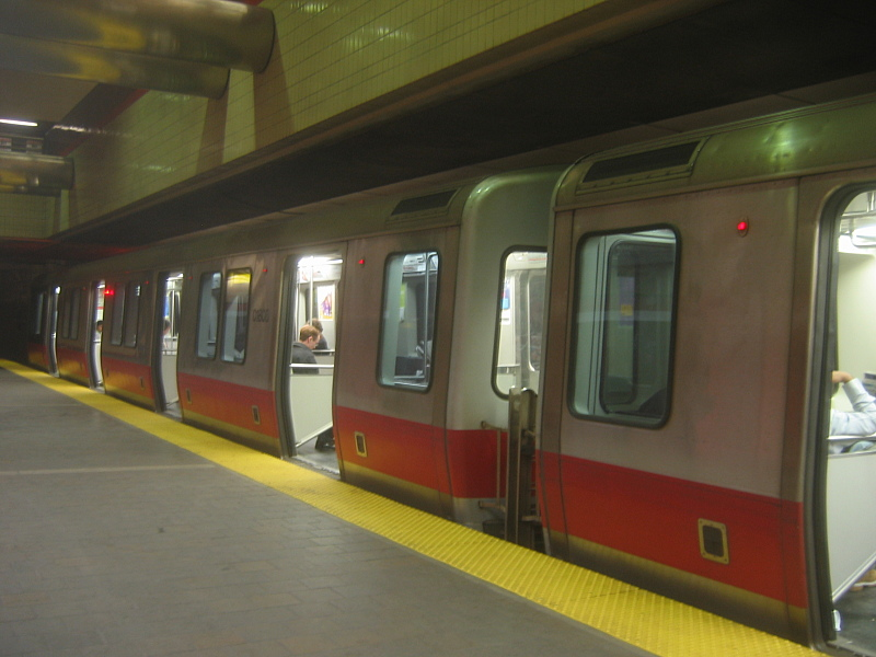 MBTA Red Line 1800 series cars, made by Bombardier, at Harvard station in 2005